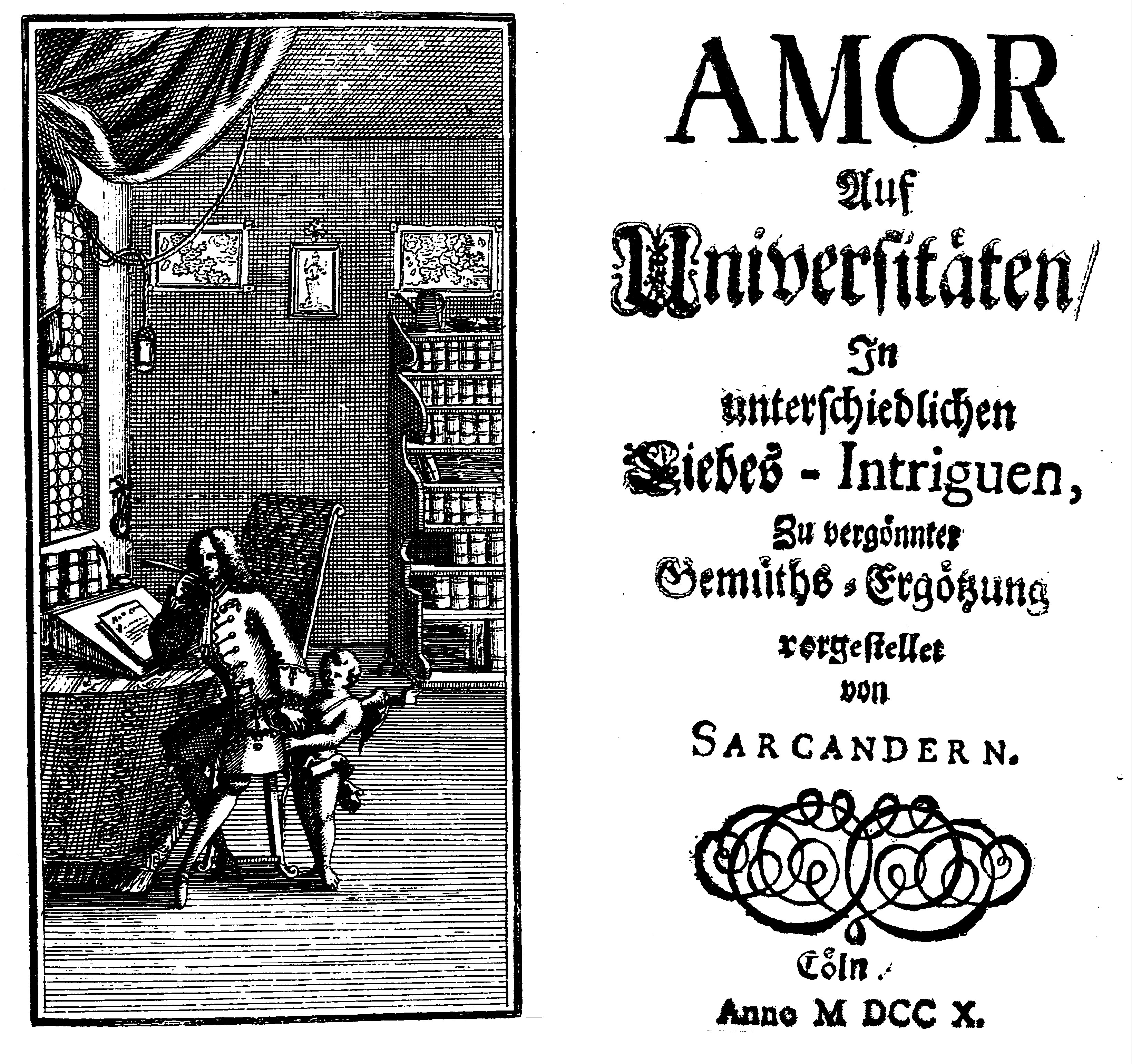 Frontispiece and title page to Sarcander, Amor auf Universitäten (Cöln [Halle?], 1710).